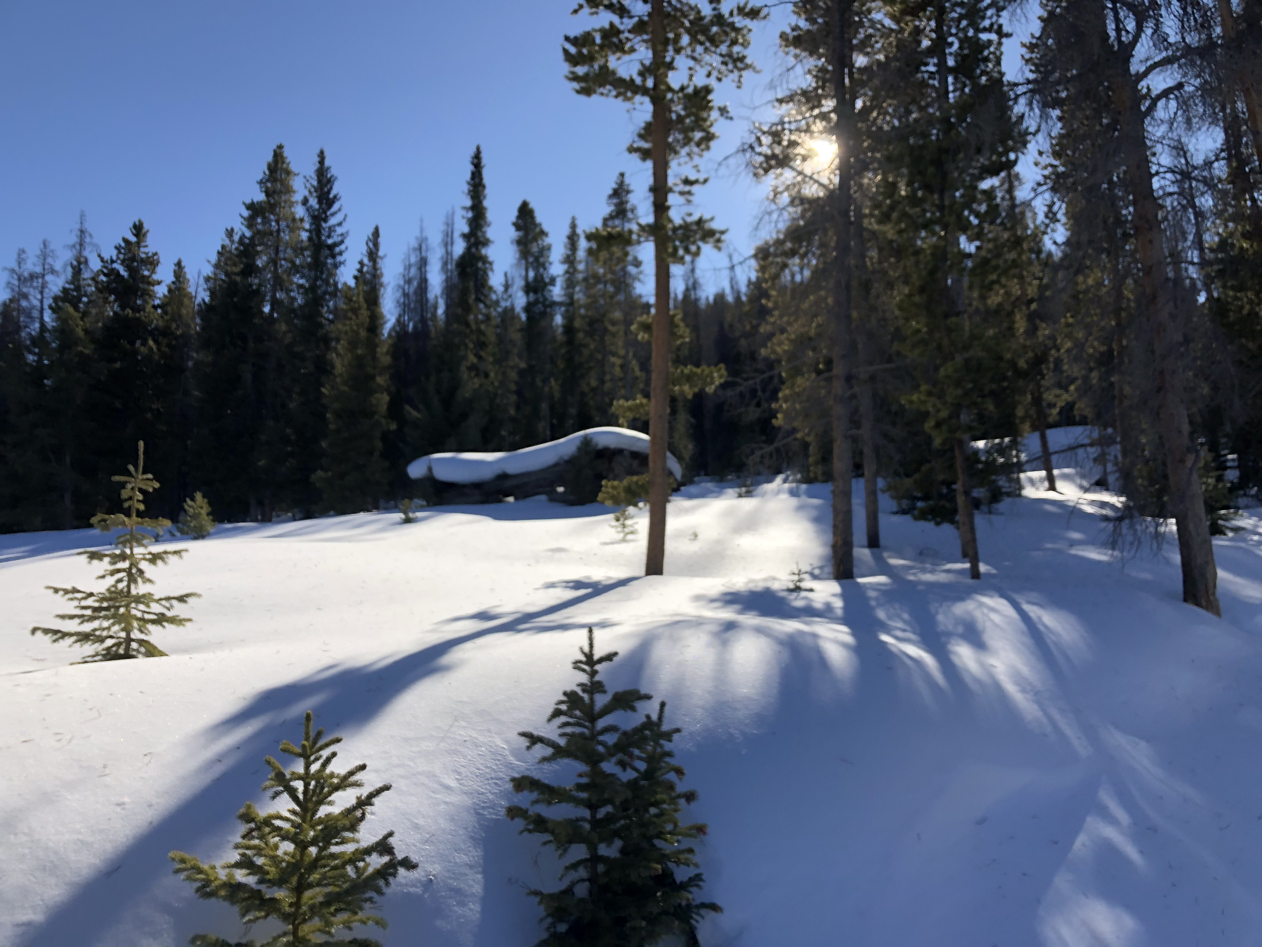 A snow-covered abandoned cabin in the ghost town of Preston, Colorado near Breckenridge during January 2020.